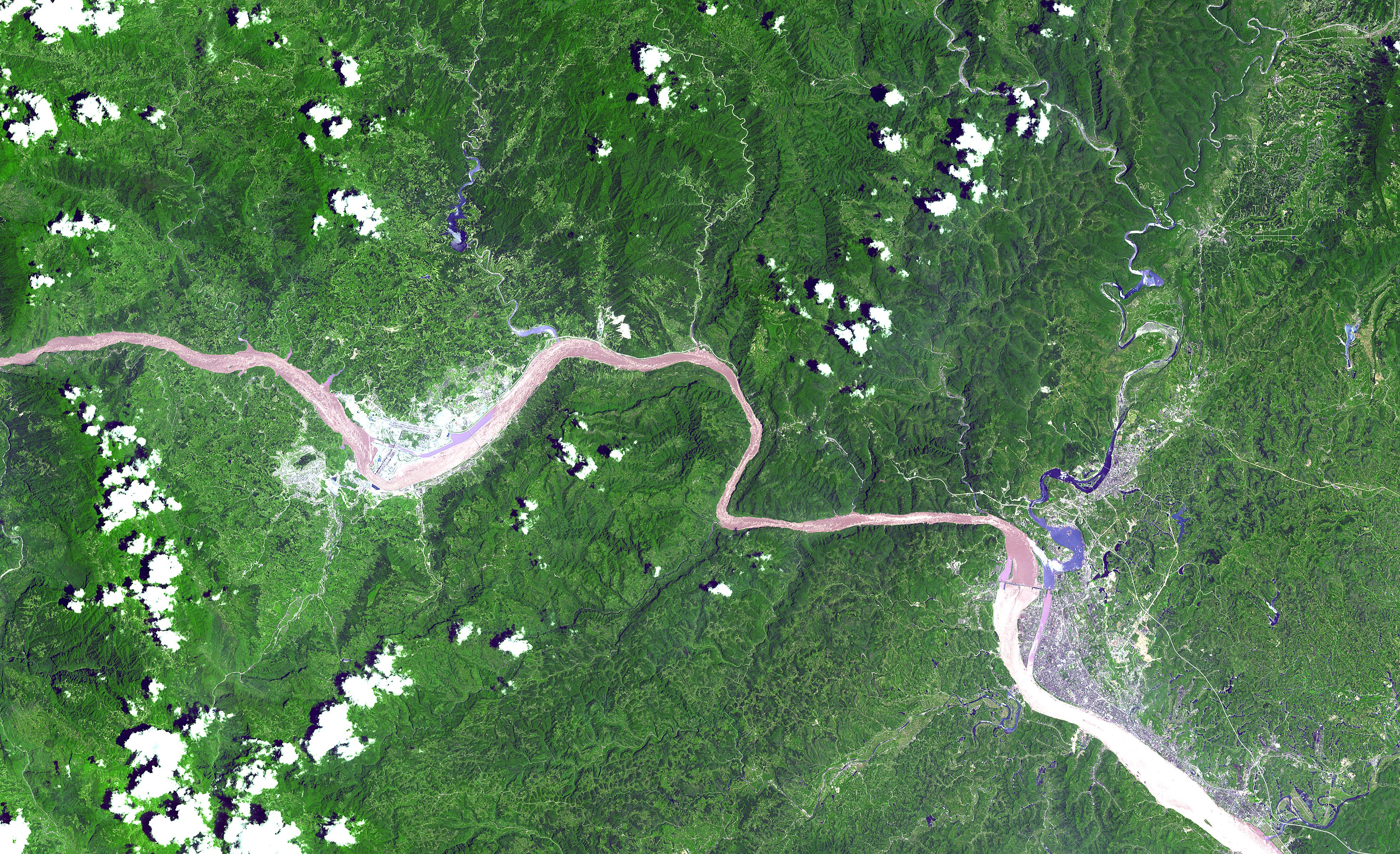 The Three Gorges Dam on the left, and the Gezhouba Dam on the right.